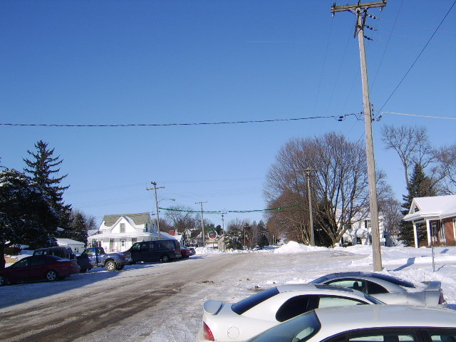 Scales Mound - Main Street (view north from near North Avenue)